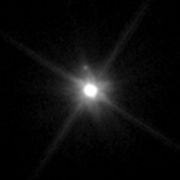 This Hubble Space Telescope image reveals the first moon ever discovered around the dwarf planet Makemake. The tiny moon, located just above Makemake in this image, is barely visible because it is almost lost in the glare of the very bright dwarf planet. The moon, nicknamed MK 2, is roughly 160 kilometres wide and orbits about 21,000 kilometres from Makemake. Makemake is 1,300 times brighter than its moon and is also much larger, at 2,200 kilometres across. The Makemake system is more than 50 times farther than the Earth is from the Sun. The pair resides on the outskirts of our solar system in the Kuiper Belt, a vast region of frozen debris from the construction of our solar system 4.5 billion years ago. Previous searches for a moon around Makemake turned up empty. The moon may be in an edge-on orbit, so part of the time it gets lost in the bright glare of Makemake. Hubble's sharp-eyed Wide Field Camera 3 made the observation in April 2015.